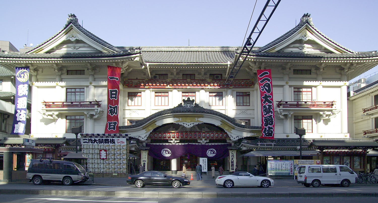 Kabukiza kabuki theater Ginza Tokyo Japan I took this photo of the Kabukiza, a kabuki theater in the Ginza section of Tokyo.